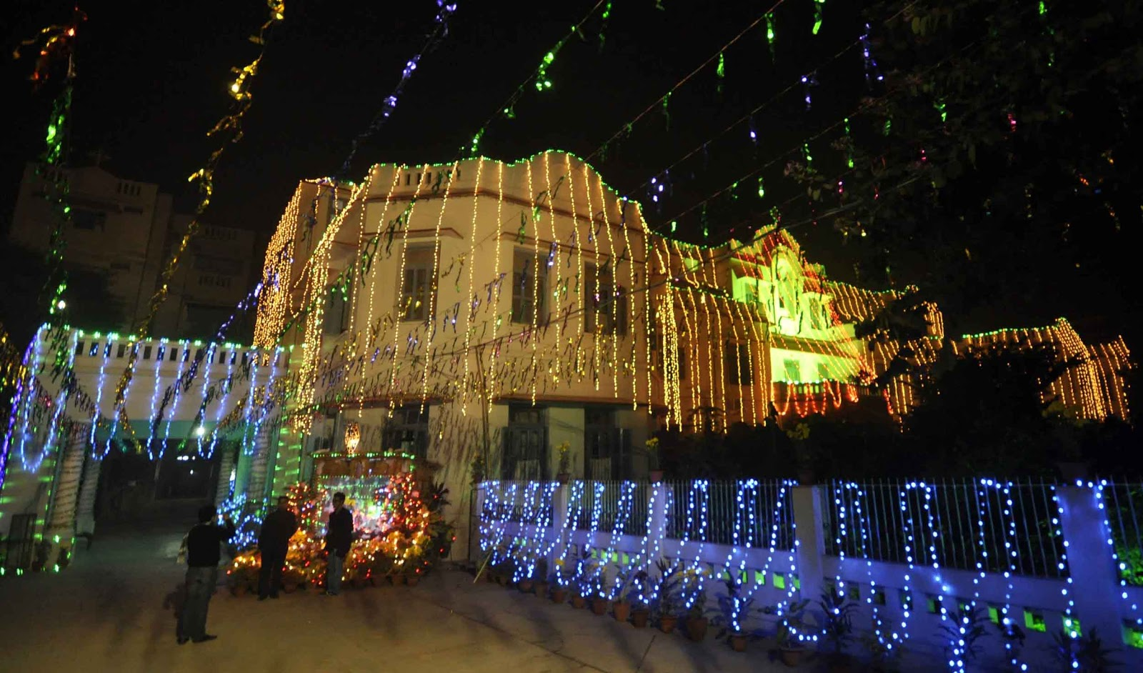 sxspatna